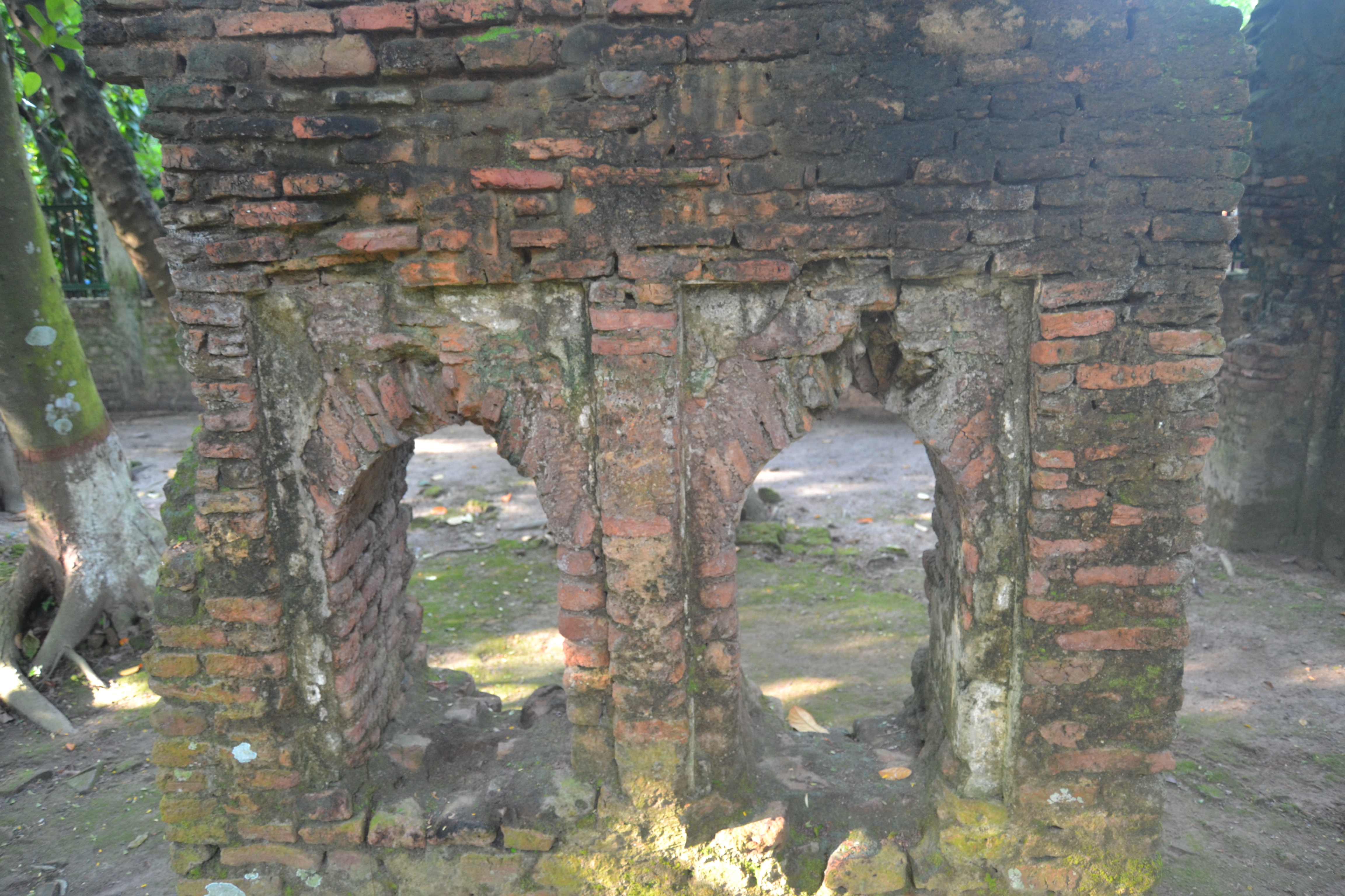 House of Begum Rokeya